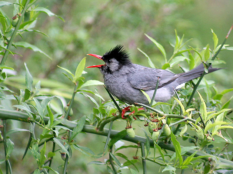 Black bulbul Hypsipetes leucocephalus race psaroides in Kullu District of Himachal Pradesh, India.